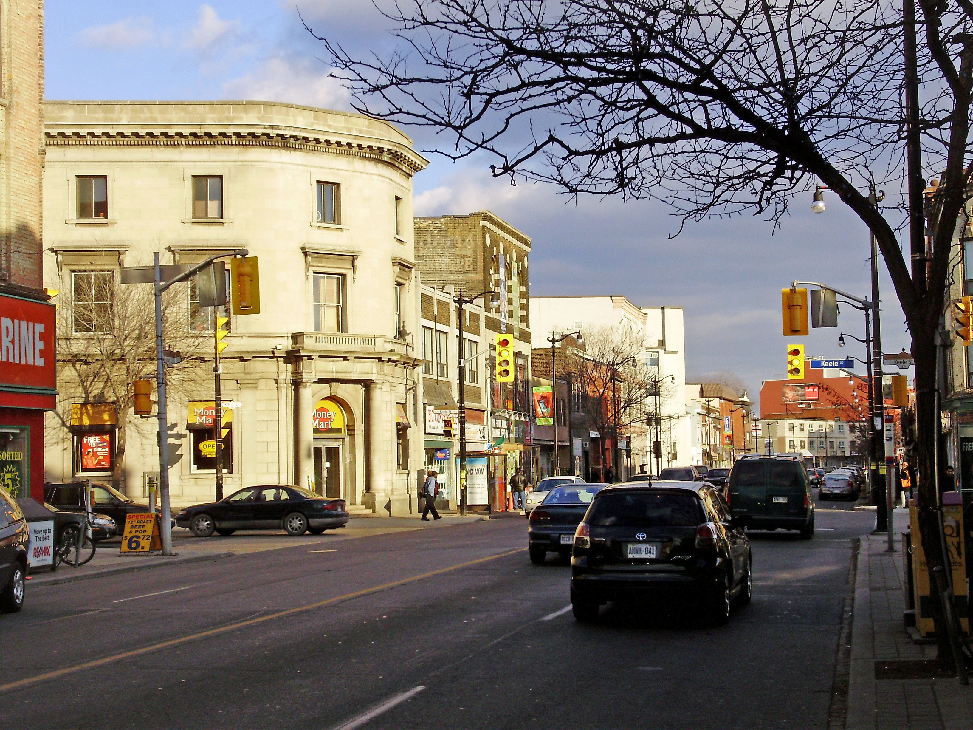 Looking east down Dundas Street West at its intersection with Keele Street in the heart of the Junction neighbourhood in Toronto, Ontario, Canada.